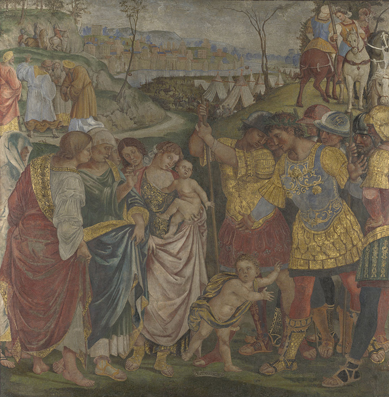 National Gallery (Londra).jpg